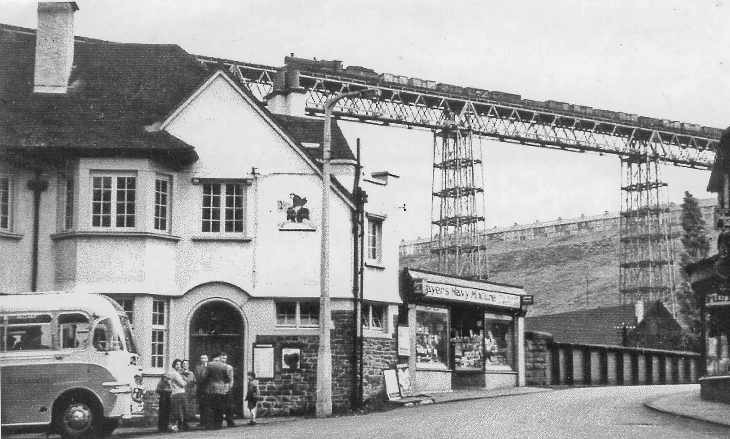 Crumlin Viaduct from A472 road bridge at Low Level station. View northward, towards Crumlin (High Level), Aberdare and Neath left, Pontypool Road right: ex-GWR Pontypool Road - Neath line. (Underneath is the Newport - Ebbw Vale/Brynmawr (Western Valleys) line. (See ST2098 : Crumlin (Low Level) station and Crumlin Viaduct). The westbound empties 'perilously' high up on the 200-foot viaduct (demolished 1967), is headed by a 28XX 2-8-0 exemplifing the heavy coal traffic between the Welsh Valleys and England by this route, but which was closed on 15/6/64.